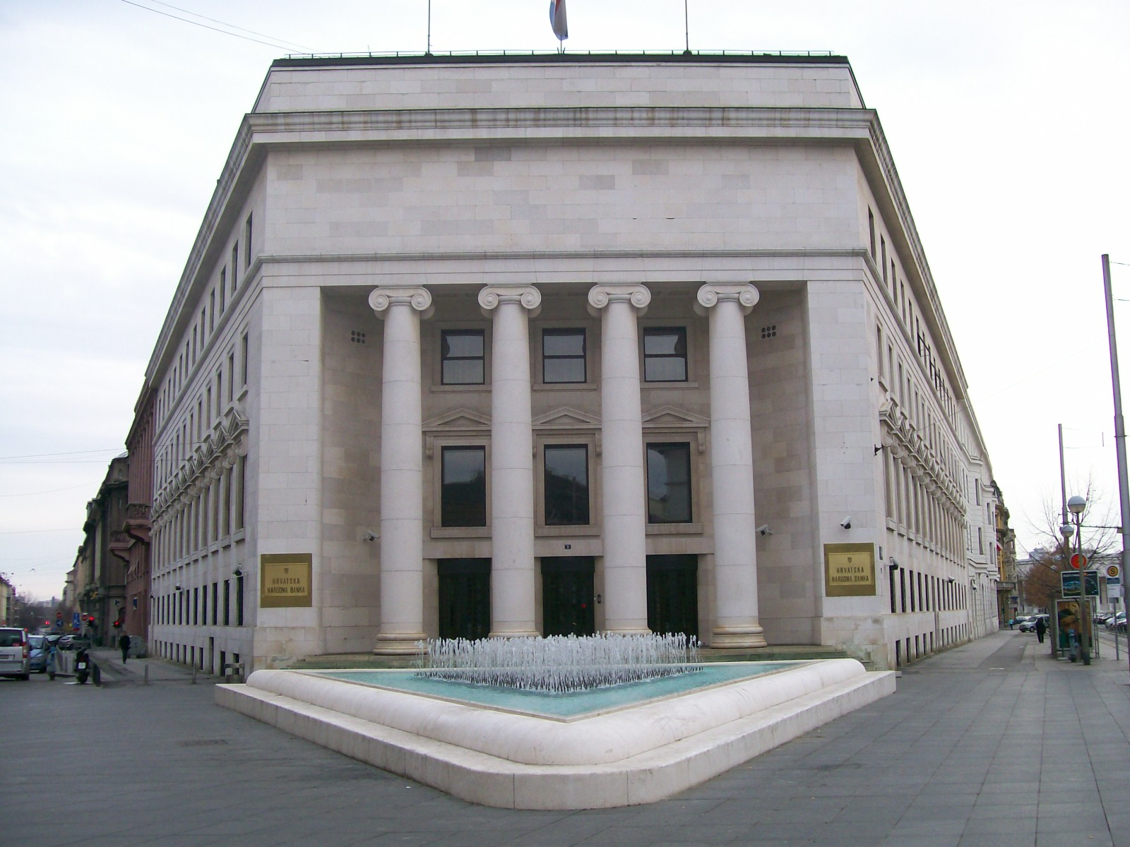 Croatian National Bank in ZagrebHrvatski: Hrvatska narodna banka u Zagrebu